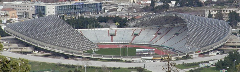 Stadium (FC Hajduk). Authors: Zoran Knez & Dra?en Radujkov.